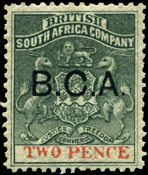 British Central Africa 2-pence overprint stamp of 1891